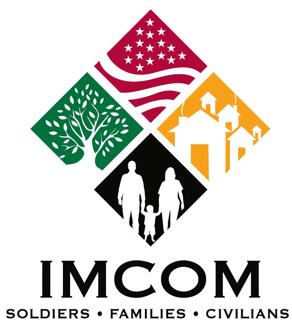 IMCOM Logo